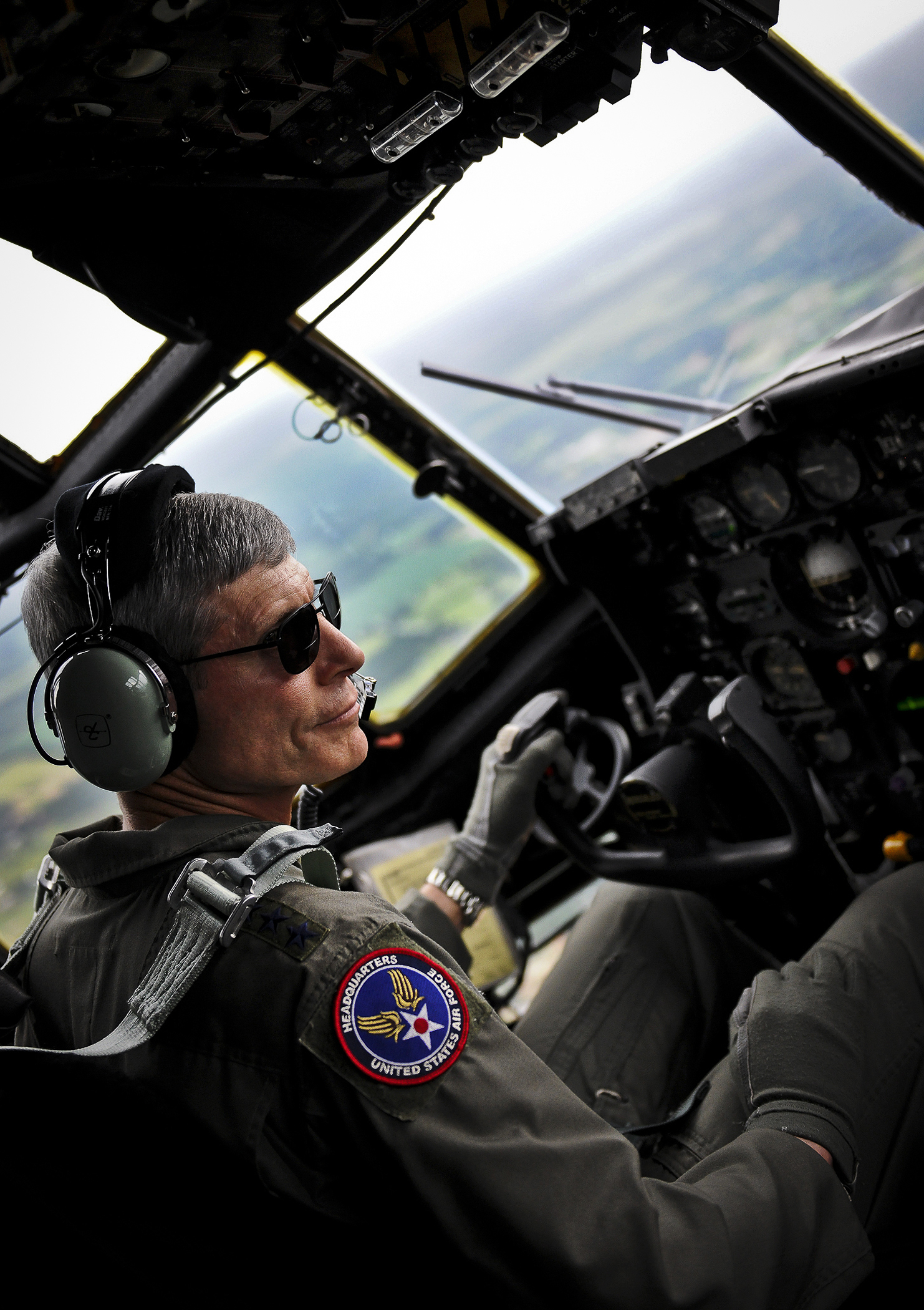 U.S. Air Force Chief of Staff Gen. Norton Schwartz flies an MC-130E Combat Talon I during his last flight as an active duty officer near Hurlburt Field, Fla., on July 12, 2012. Schwartz and the MC-130E Combat Talon I crew conducted a local training sortie during the mission.